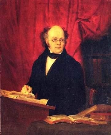 Belgian writer Jan Frans Willems (1793-1846). Painting by unknown 19th century painter.